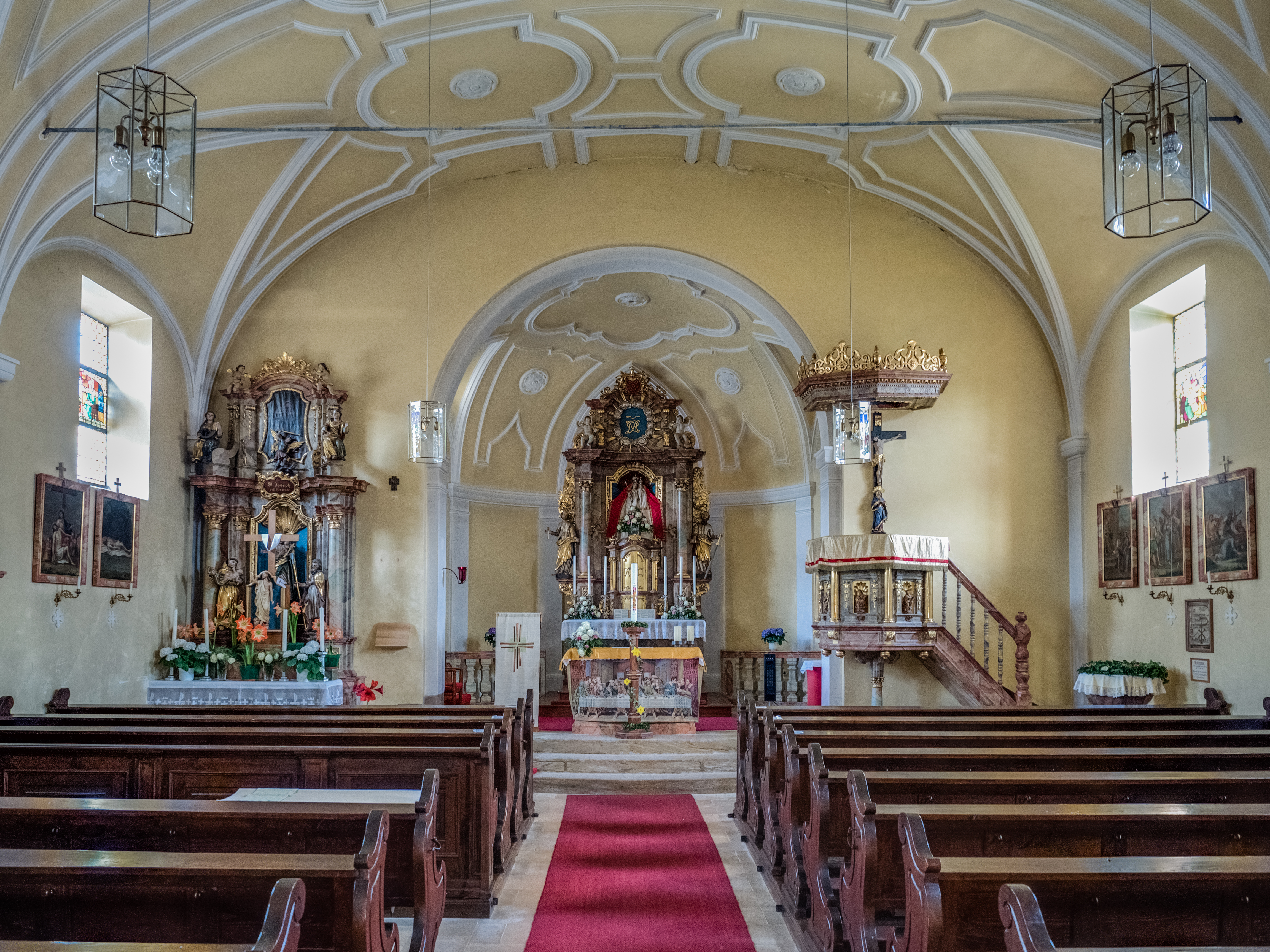 Church Assumption in Medlitz near Rattelsdorf